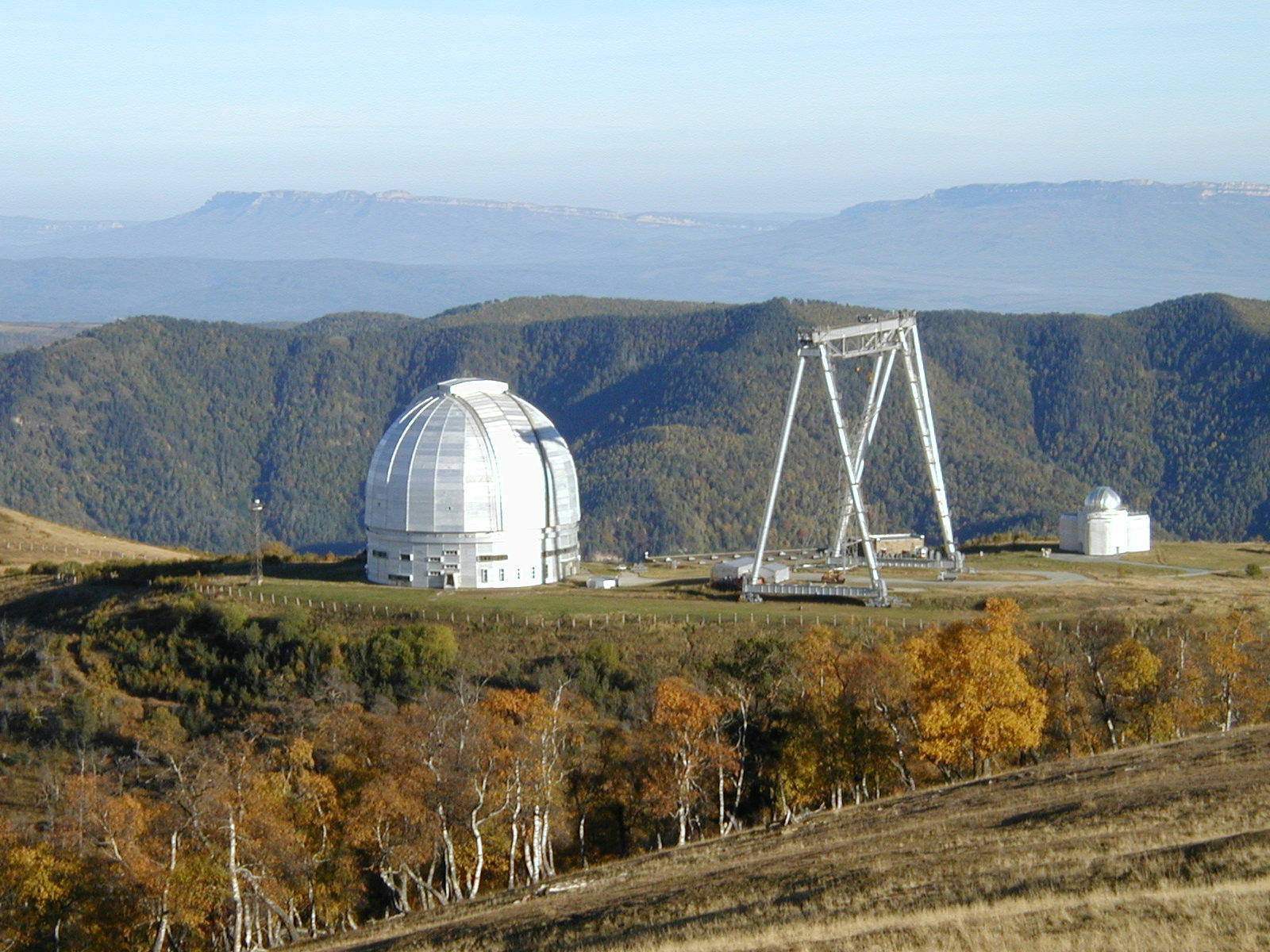 The 6-m telescope of the russian SAO obervatory